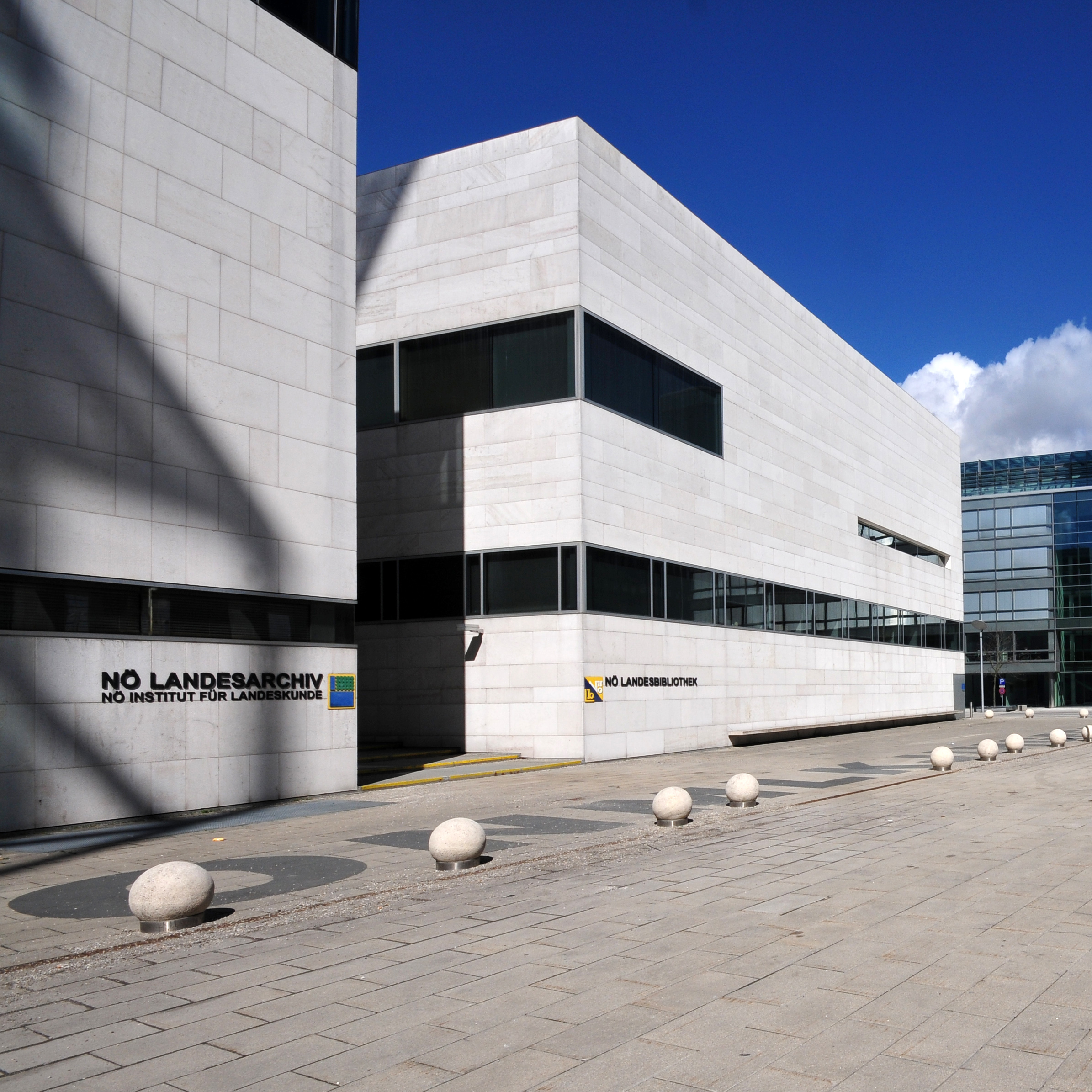 St. Pölten, Austria, Landhausviertel Fotowanderung St. Pölten 13. April 2013 in St. Pölten, Niederösterreich 50mm • Allgemeines • Bahnhof • Domplatz • Fahrräder • Landhausviertel • Rathausplatz